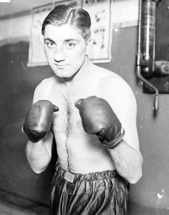 "Three-quarter length portrait of pugilist Vince Dundee standing in a boxing stance in front of a dark backdrop in a room in Chicago, Illinois."